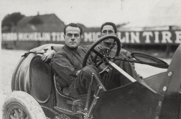 Driver David Bruce-Brown and mechanic Tony Scudelari pose in their race car. Although they had been warned that their tires appeared worn, on October 1, 1912, they continued to practice for Bruce-Brown's third American Grand Prize Race (held on October 5). When a tire on their Fiat burst, the car went cartwheeling into a ditch. Bruce-Brown (only 22 years old), died almost instantly and Scudelari succumbed to his injuries about a week later.